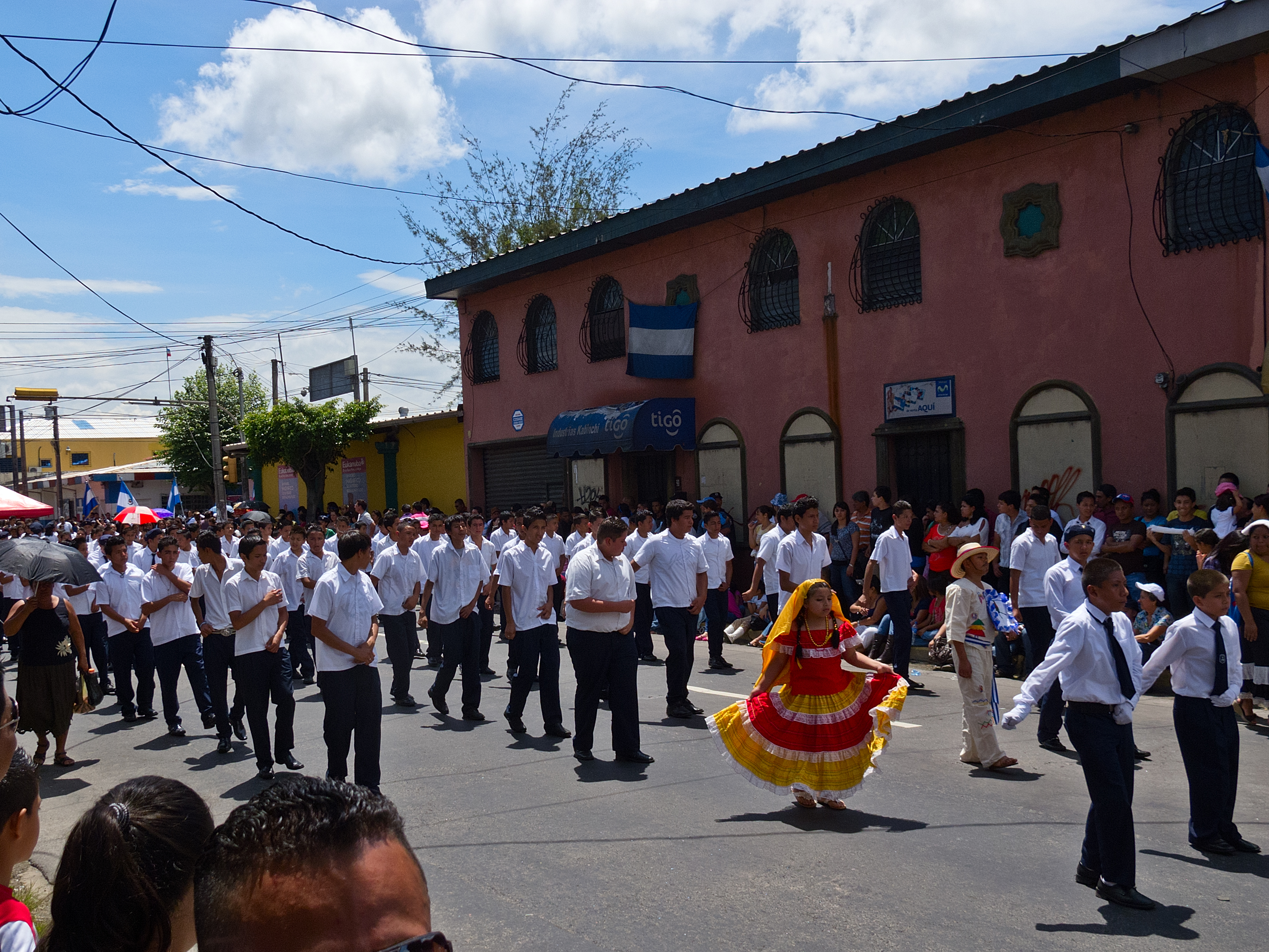 Independence day (15 Sept 2012) celebration parades in Santa Tecla, El Salvador